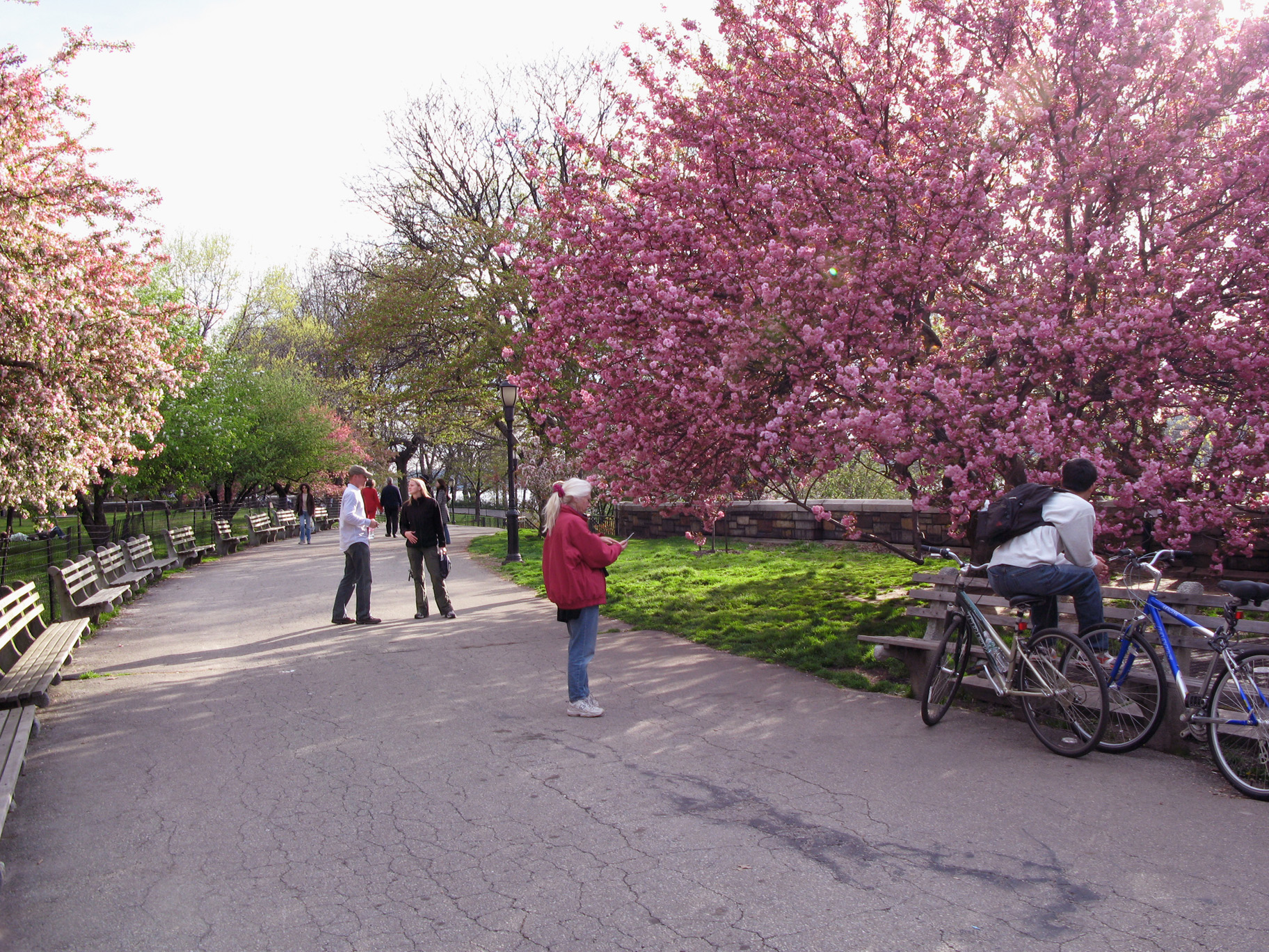 Riverside Park, New York City in springtime